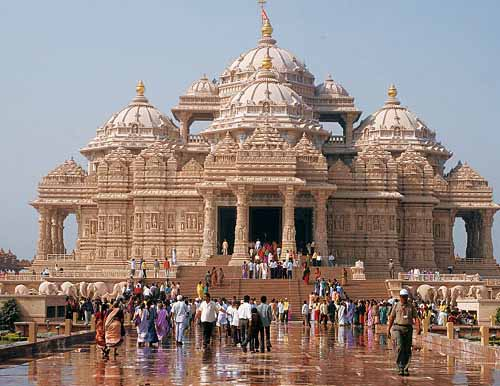 Indian-Tourism-The-History-of-Chittorgarh-Fort1